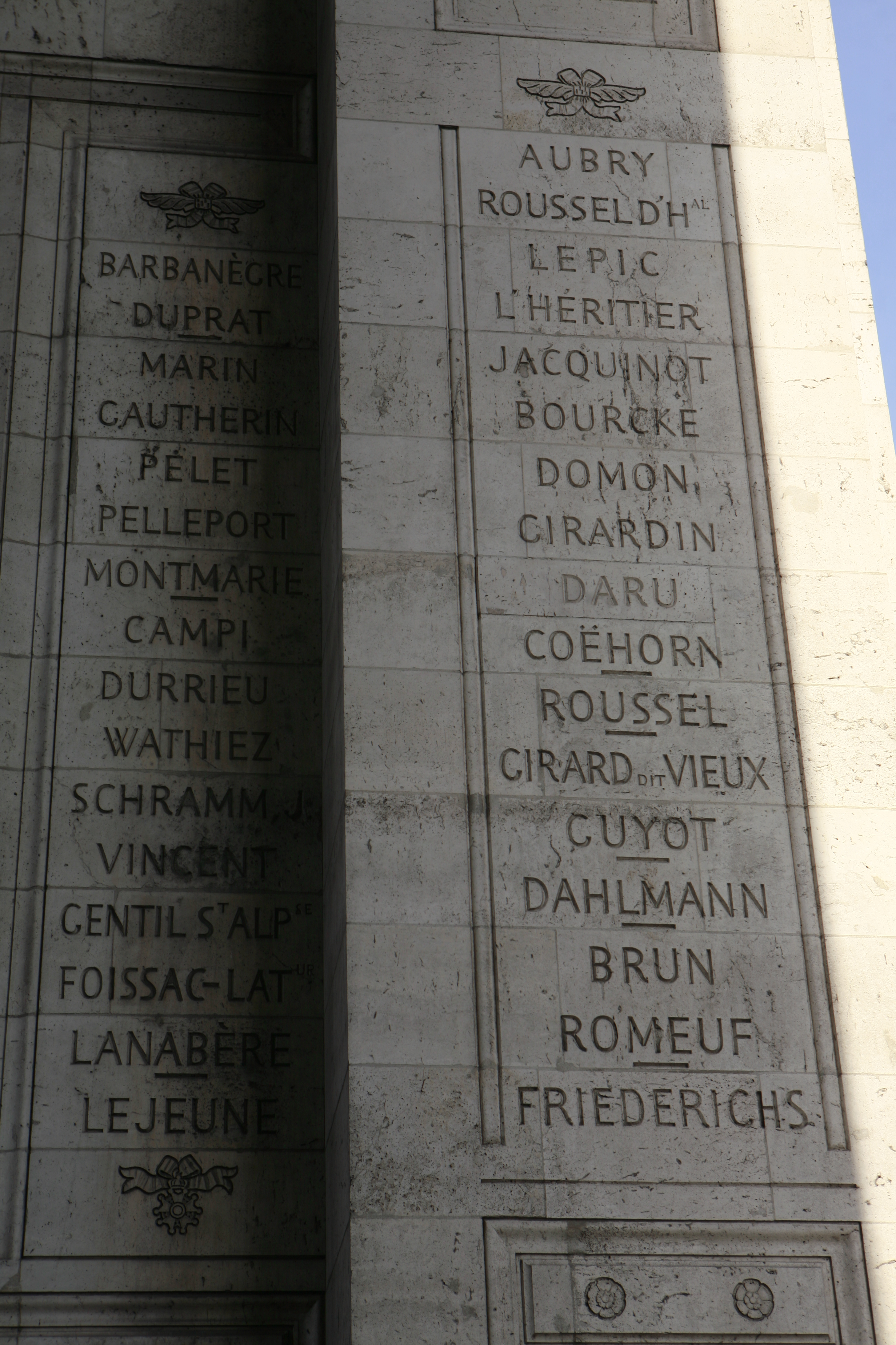 Inscriptions of the Arc de Triomphe. Eastern pillar, Columns 19, 20.